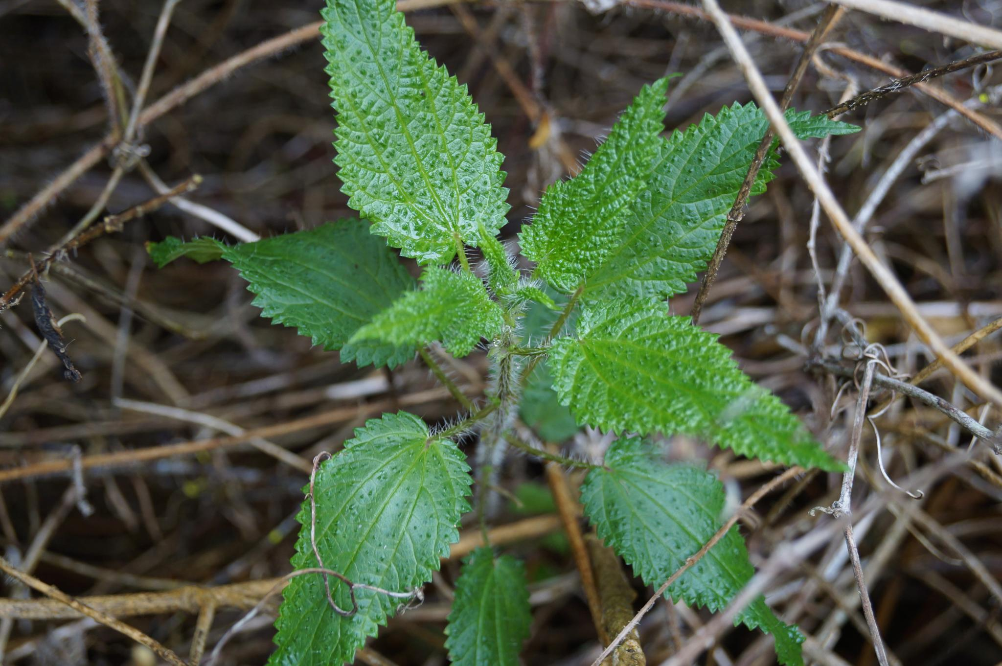 Urtica magellanica